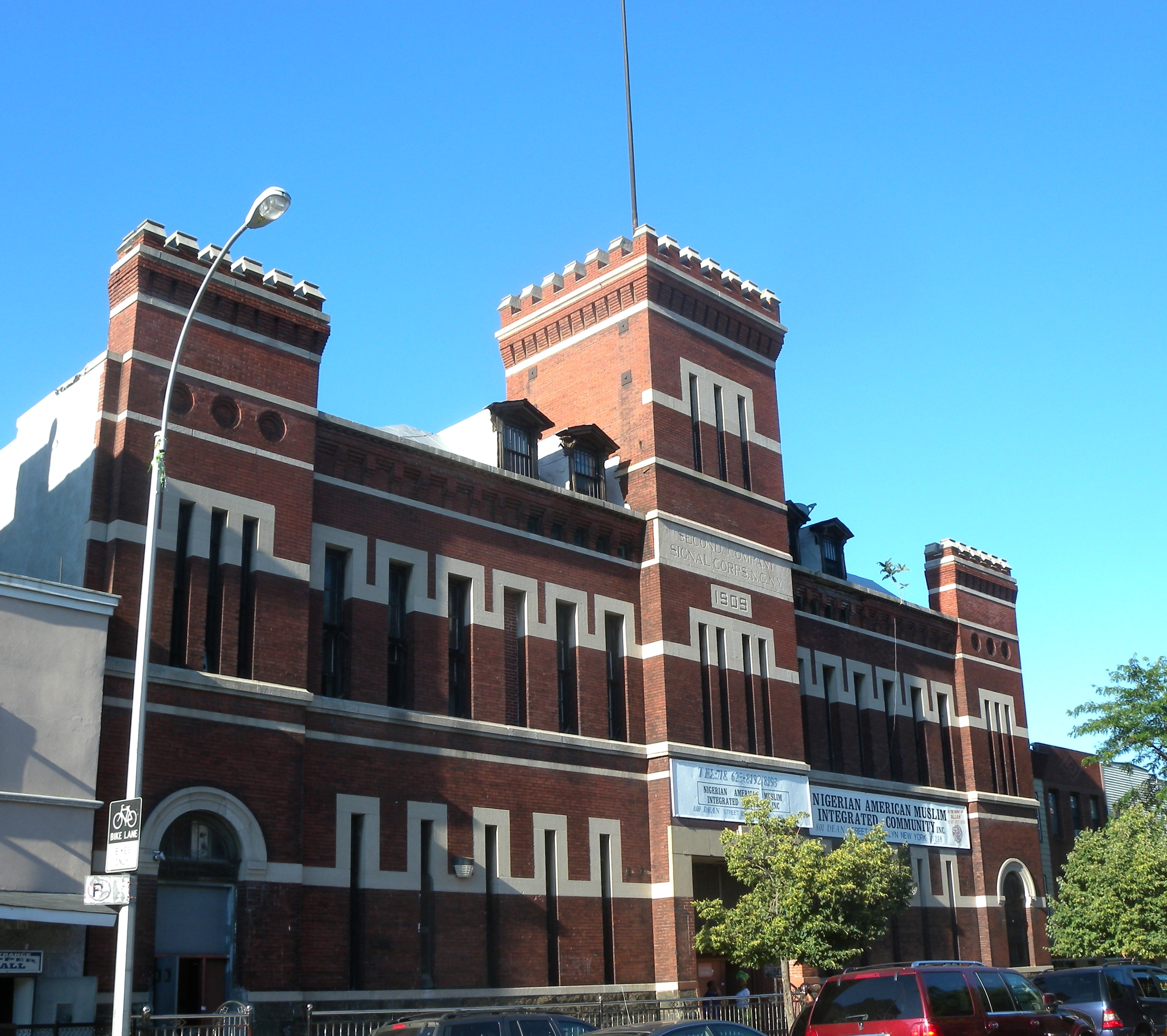 Looking northeast from near Washington Avenue, across Dean Street at Second Company Army, Signal Corps, NY National Guard on a sunny afternoon. ZIP 11238.